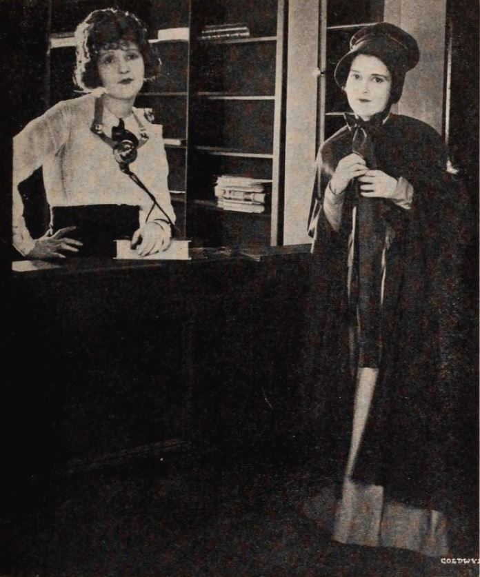 Still from the American comedy film The Girl with the Jazz Heart (1921) with Madge Kennedy in a dual role, on page 73 of the January 8, 1921 Exhibitors Herald.